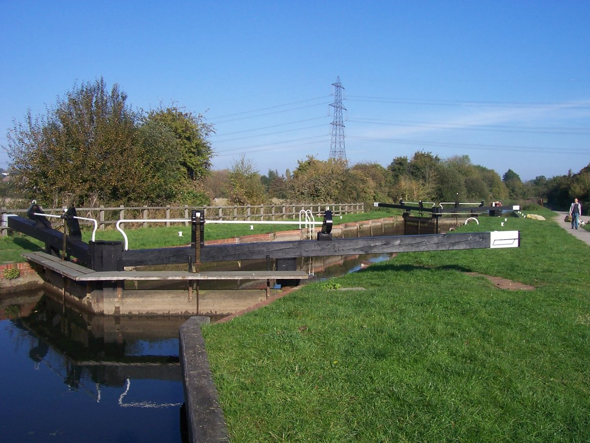 Sheffield Lock is canal lock on the Kennet and Avon Canal near Reading, England.